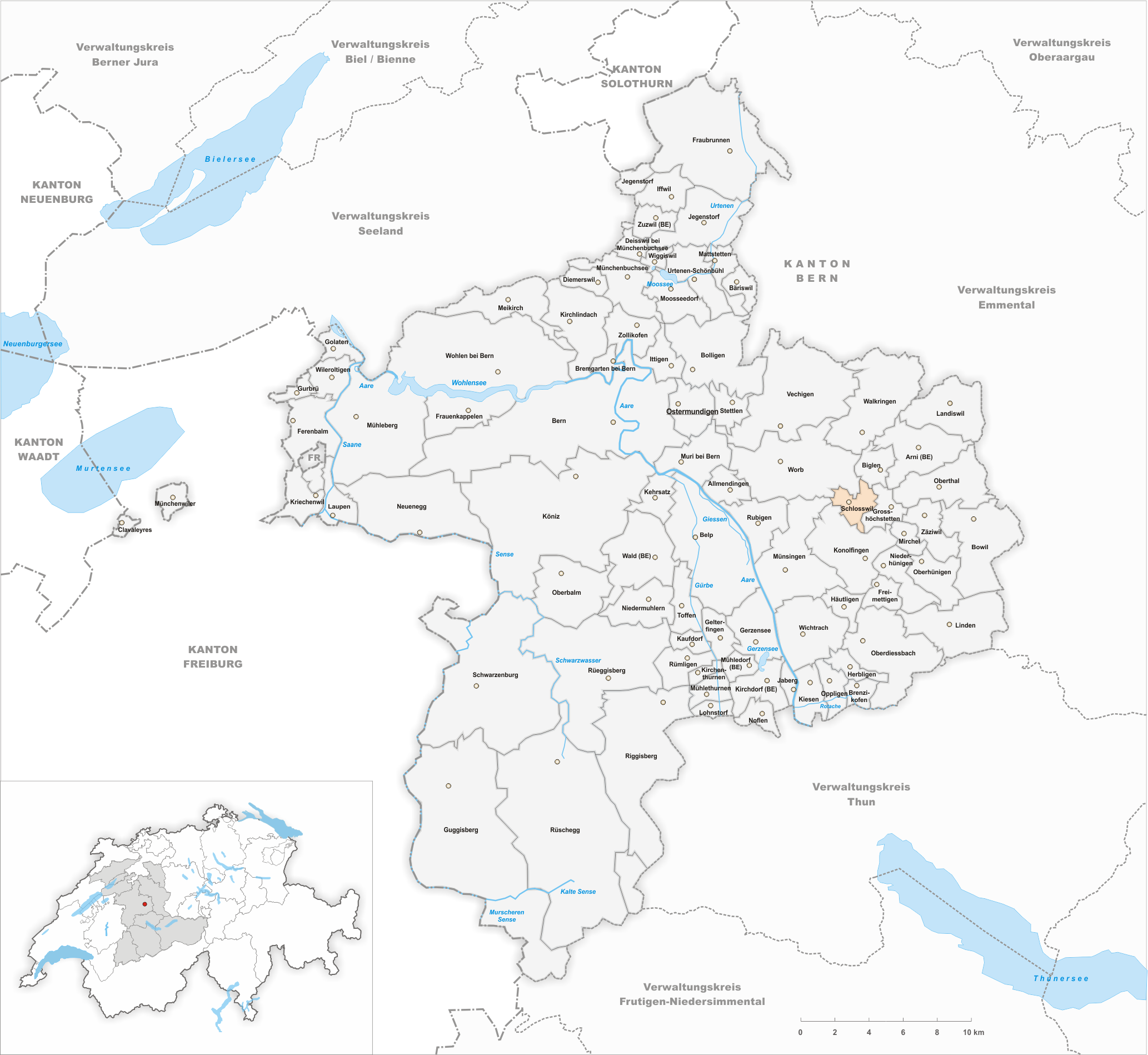 Municipality Schlosswil